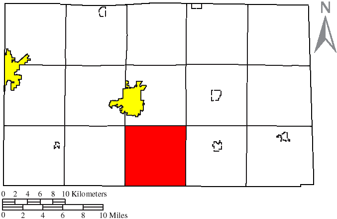 Made by the US Census and modified by myself